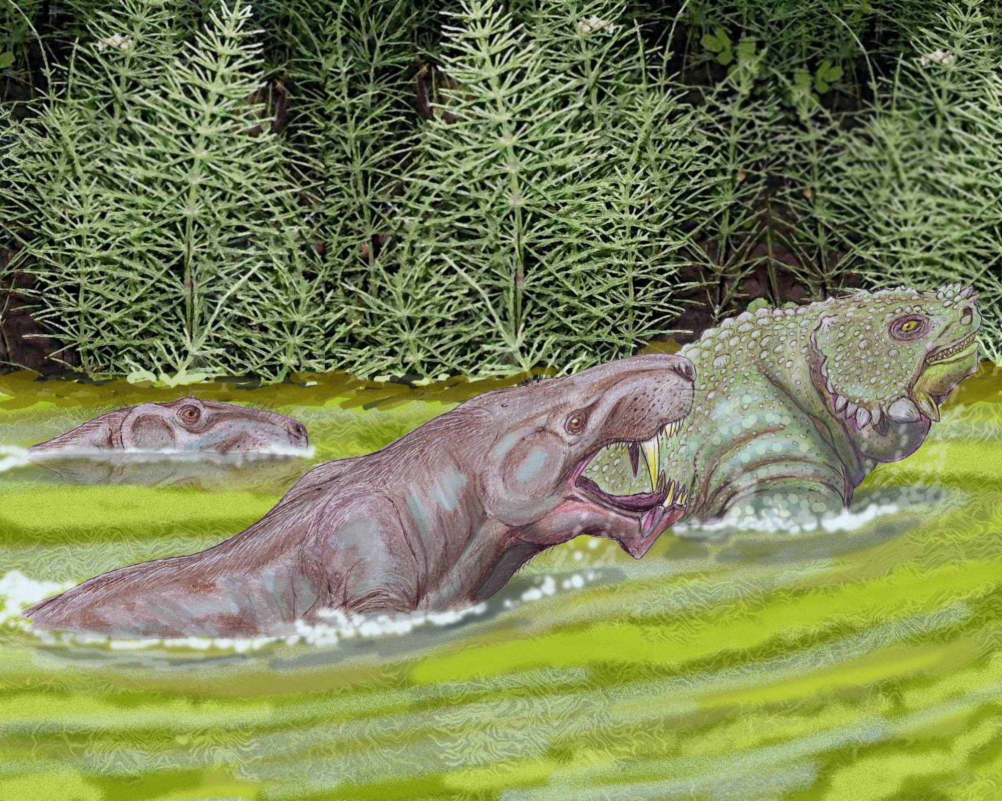 Inostrancevia latifrons attack Scutosaurus karpinskii